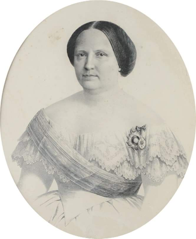 Empress Teresa Cristina of Brazil.